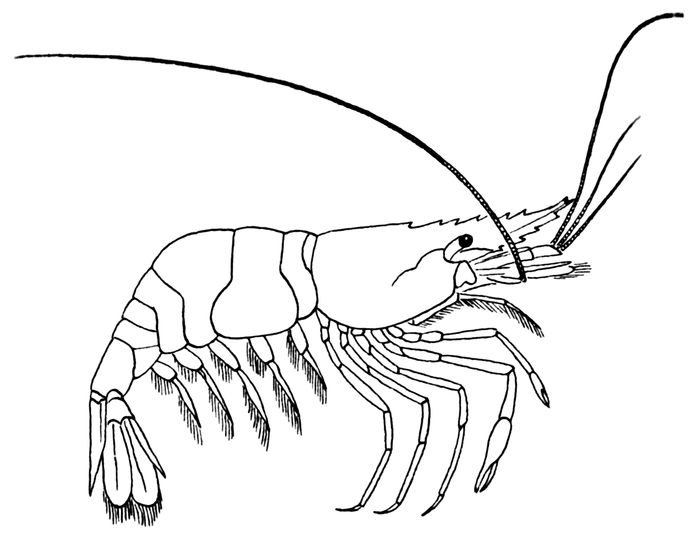 Line art drawing of prawn.